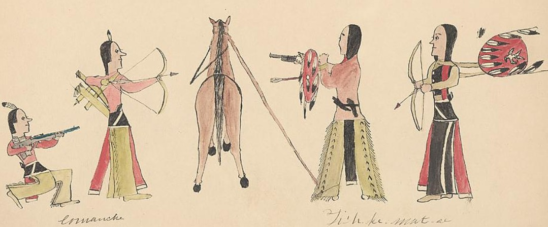 Ledger drawing of a meeting between Comanche and Cheyenne warriors.